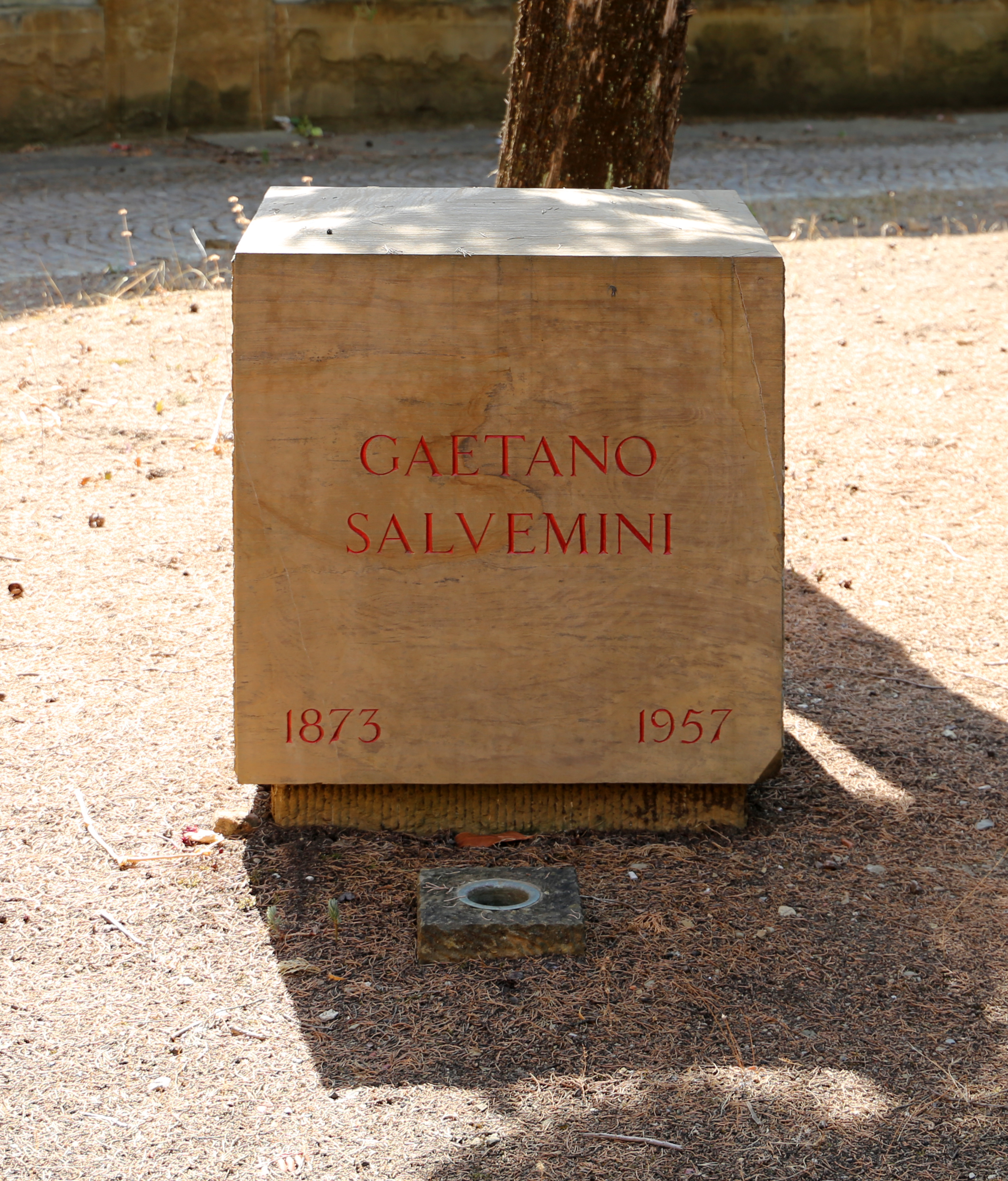 Trespiano cemetery